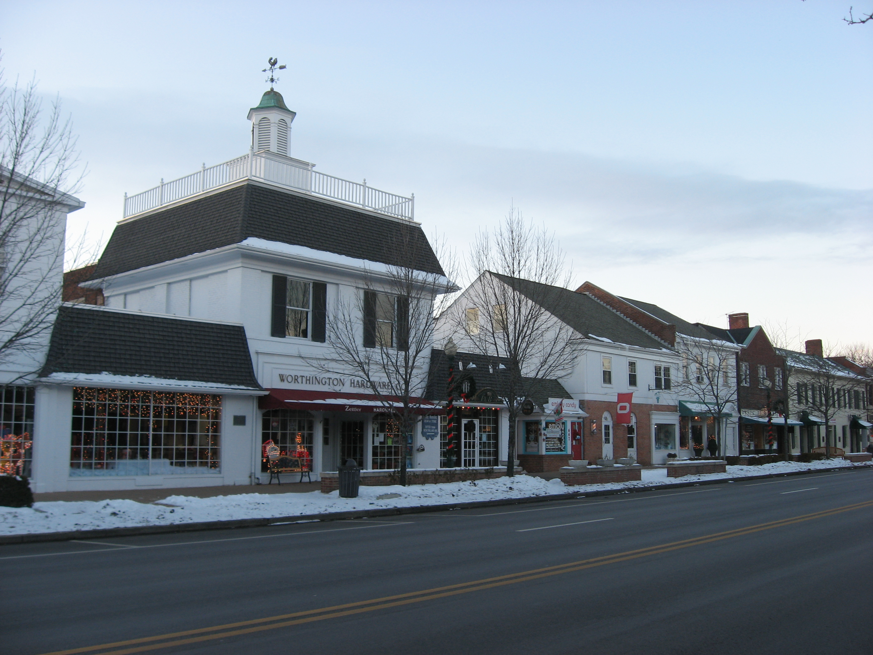 Buildings on the western side of the 600 block of High Street (U.S. Route 23) in downtown Worthington, Ohio, United States. These buildings are part of the Worthington Historic District, a historic district that is listed on the National Register of Historic Places.